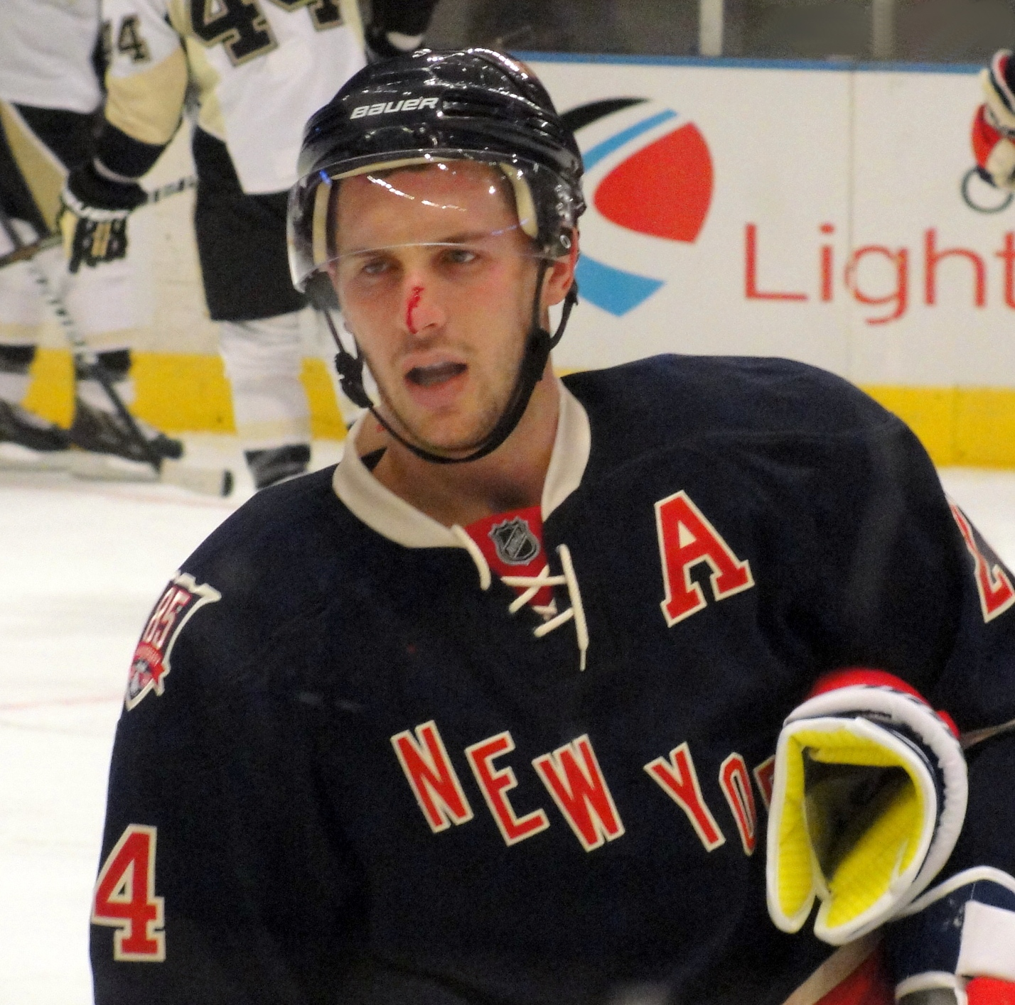 Ryan Callahan of the New York Rangers skates back to the bench with a bloody nose, the result of a high stick from Pittsburgh Penguins F Brett Sterling during the second period of New York's 5-3 win, February 13, 2011 at Madison Square Garden. Sterling earned a double minor and Callahan scored on the ensuing power play.